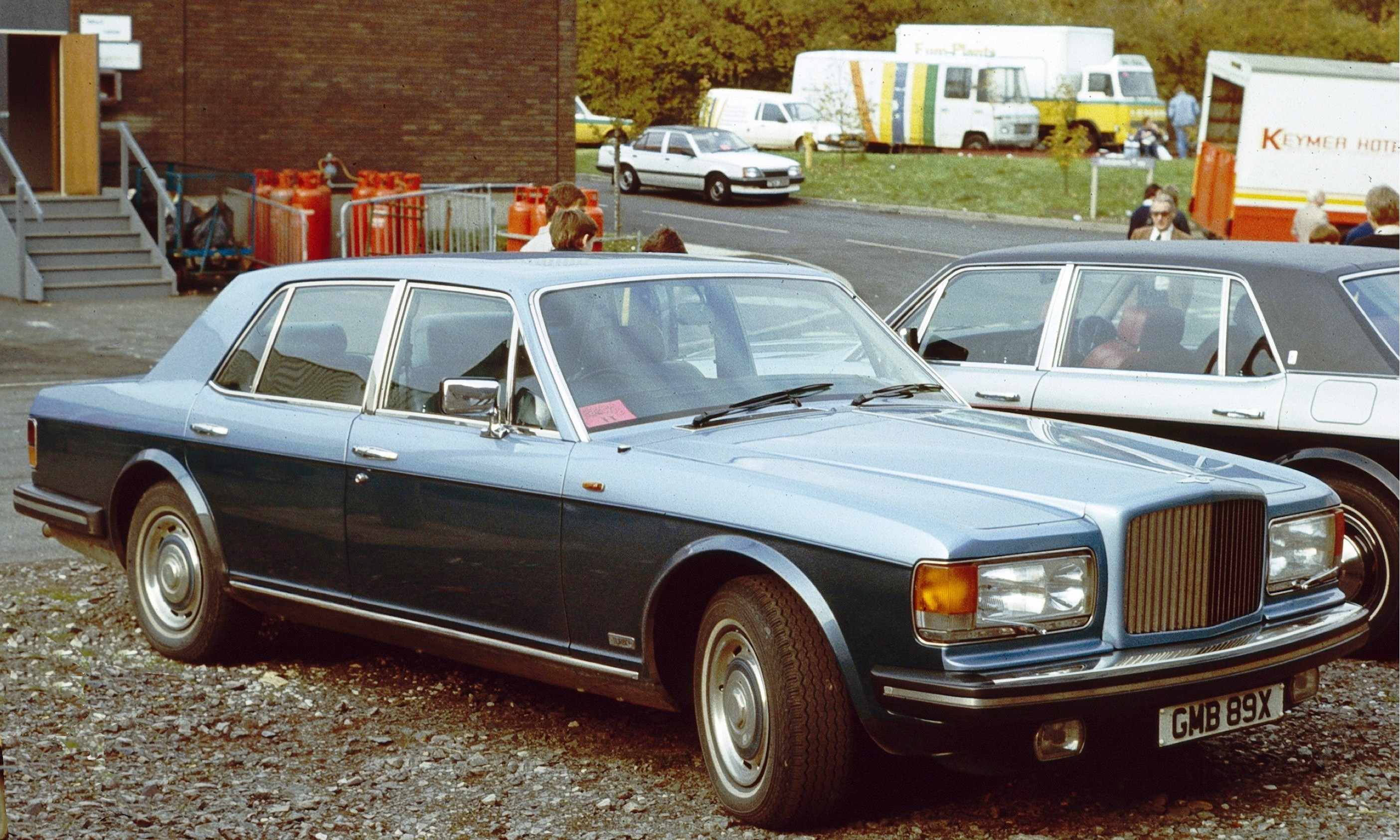 Bentley Mulsanne Turbo in blue, with RR sibling adjacent behind one of the main halls of the NEC near Coventry in England